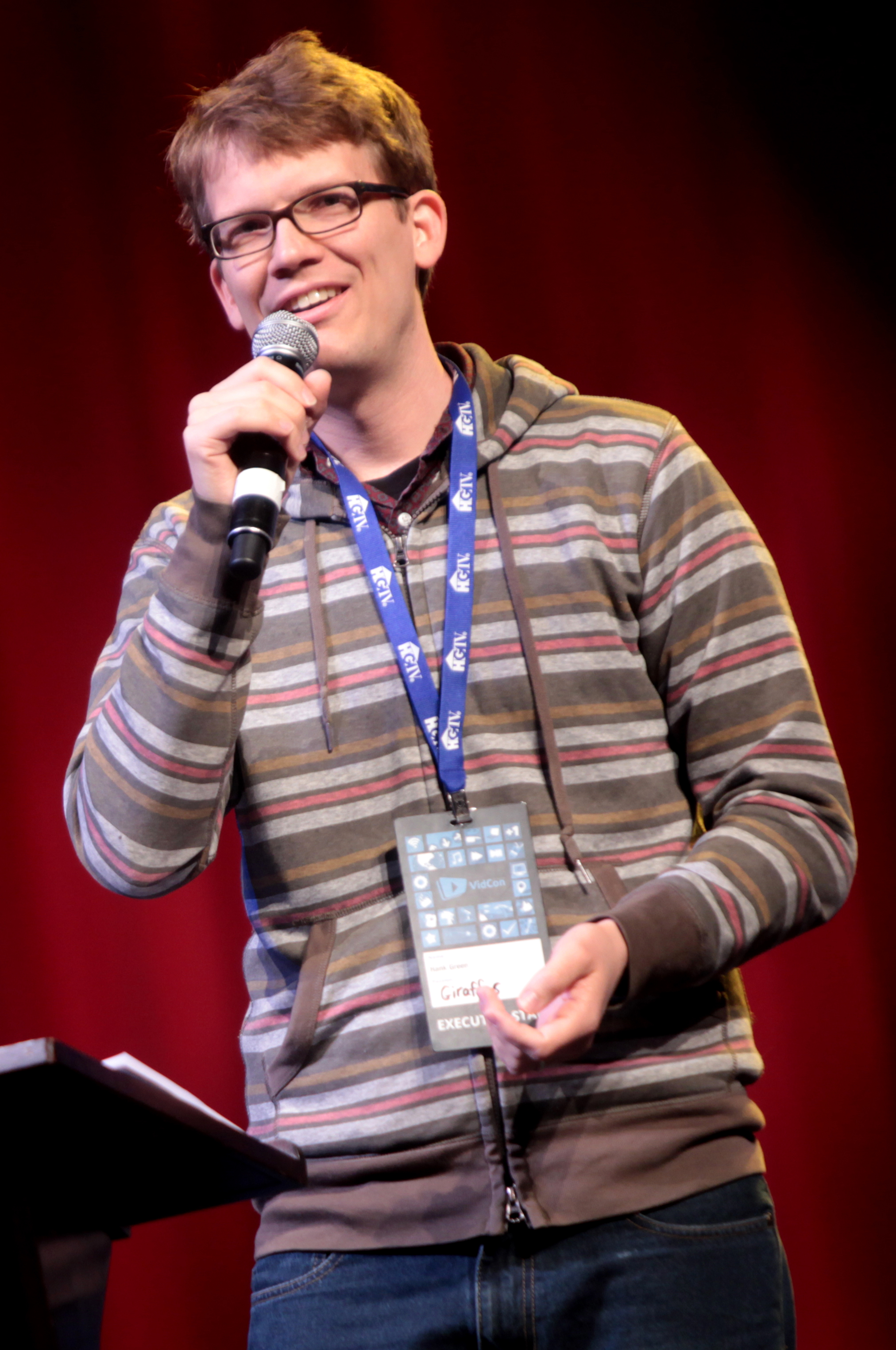 Hank Green speaking at the 2014 VidCon on June 28, 2014.